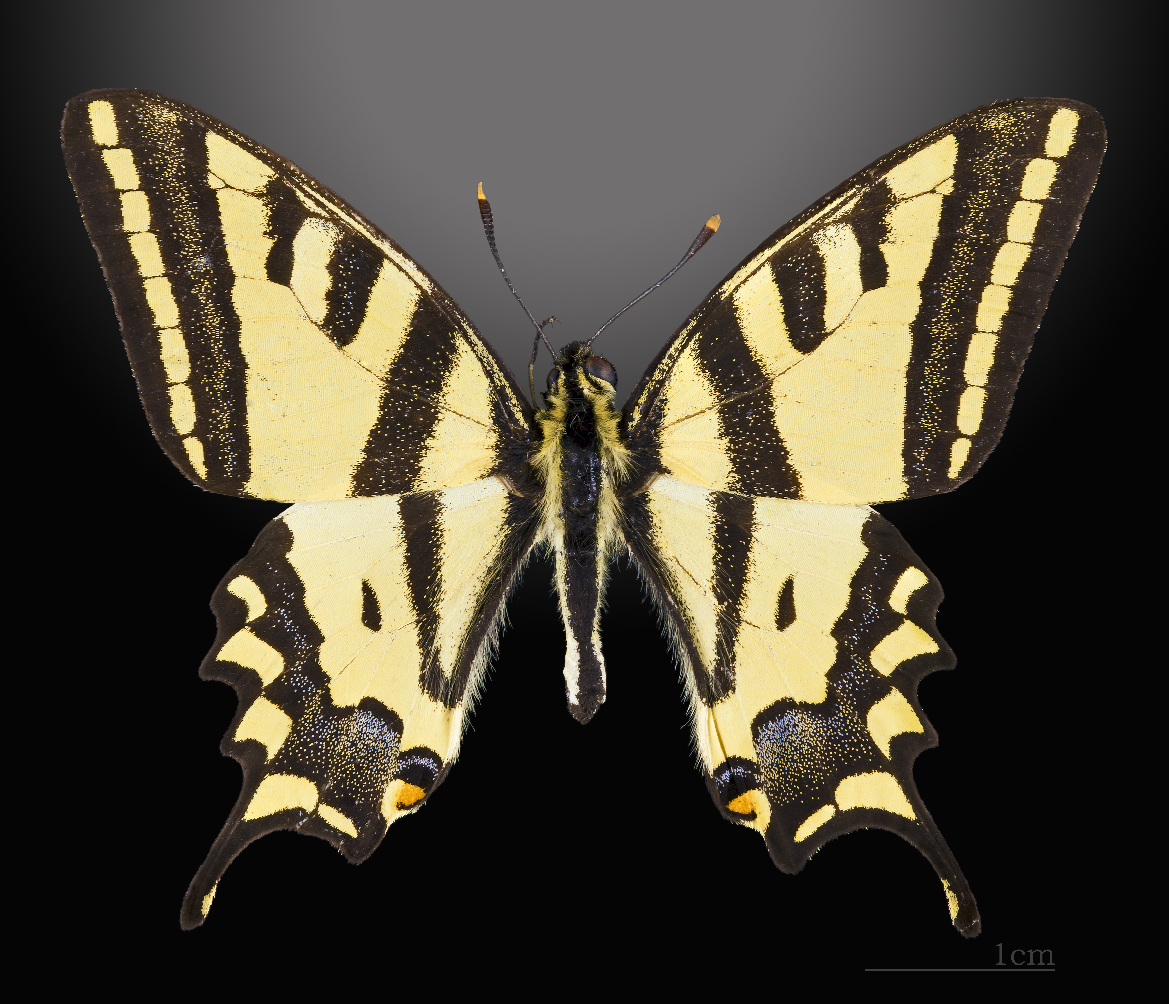 Southern Swallowtail - Dorsal side